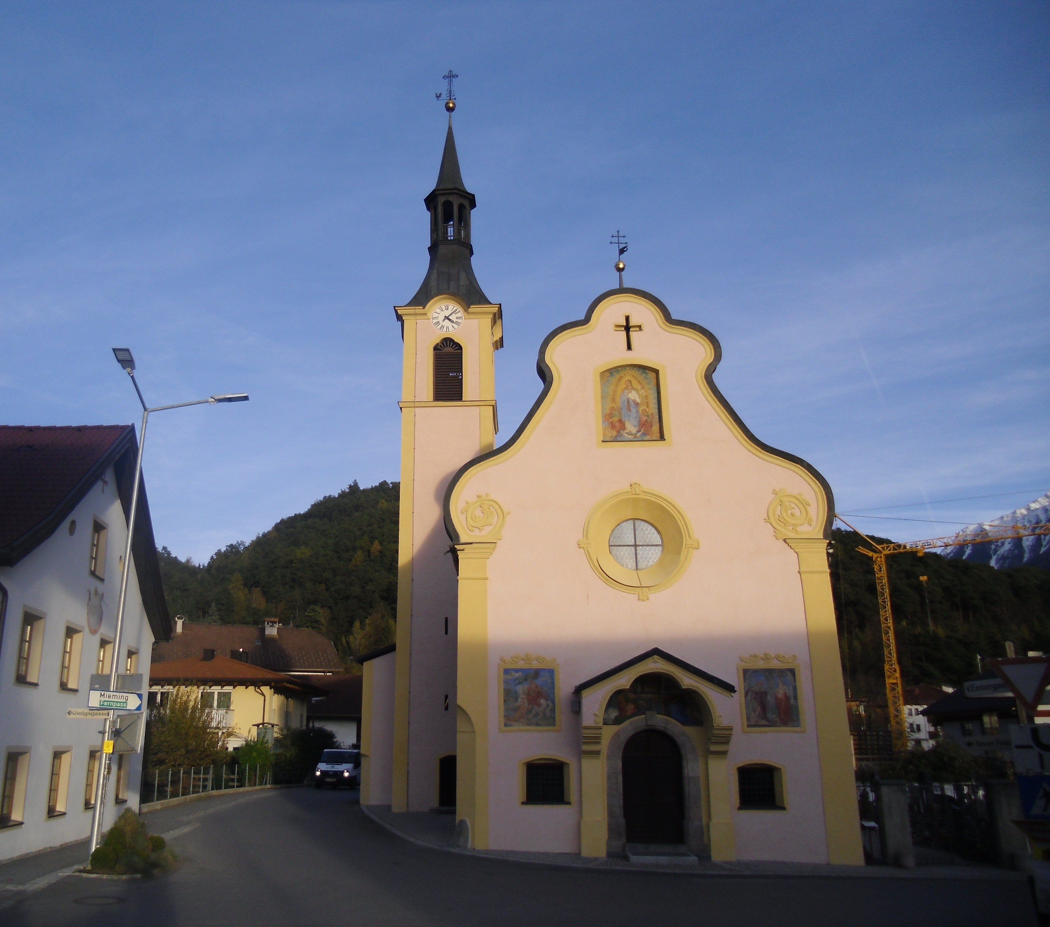 Kath. Pfarrkirche Unsere Liebe Frau Maria Schnee und Friedhof This media shows the remarkable cultural object in the Austrian state of Tyrol listed by the Tyrolean Art Cadastre with the ID 19832. (on tirisMaps, pdf, more images on Commons, Wikidata)